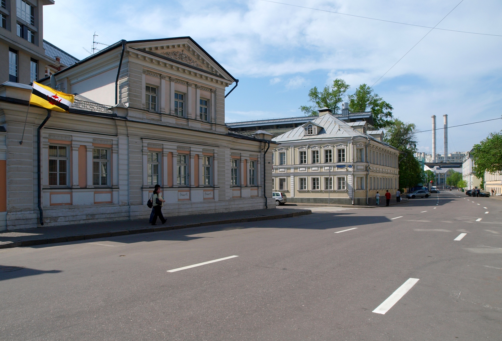 Bolshaya Yakimanka Street, Moscow. Includes the Embassy of Brunei.